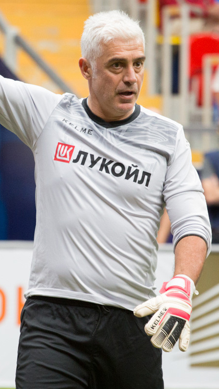 Greek former footballer Antonios Nikopolidis on 12 July 2018, during the Legends SuperCup in Moscow.